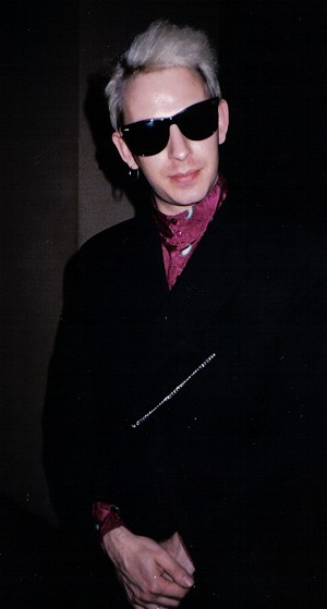 Subject: Steven Severin of Siouxsie & the Banshees Date: June 1, 1986 Place: Oakland, California, USA (Some hotel lobby) Photographer: Andwhatsnext Original 35mm photograph scanned Credit: Copyright (c) 1986 by Nancy J Price